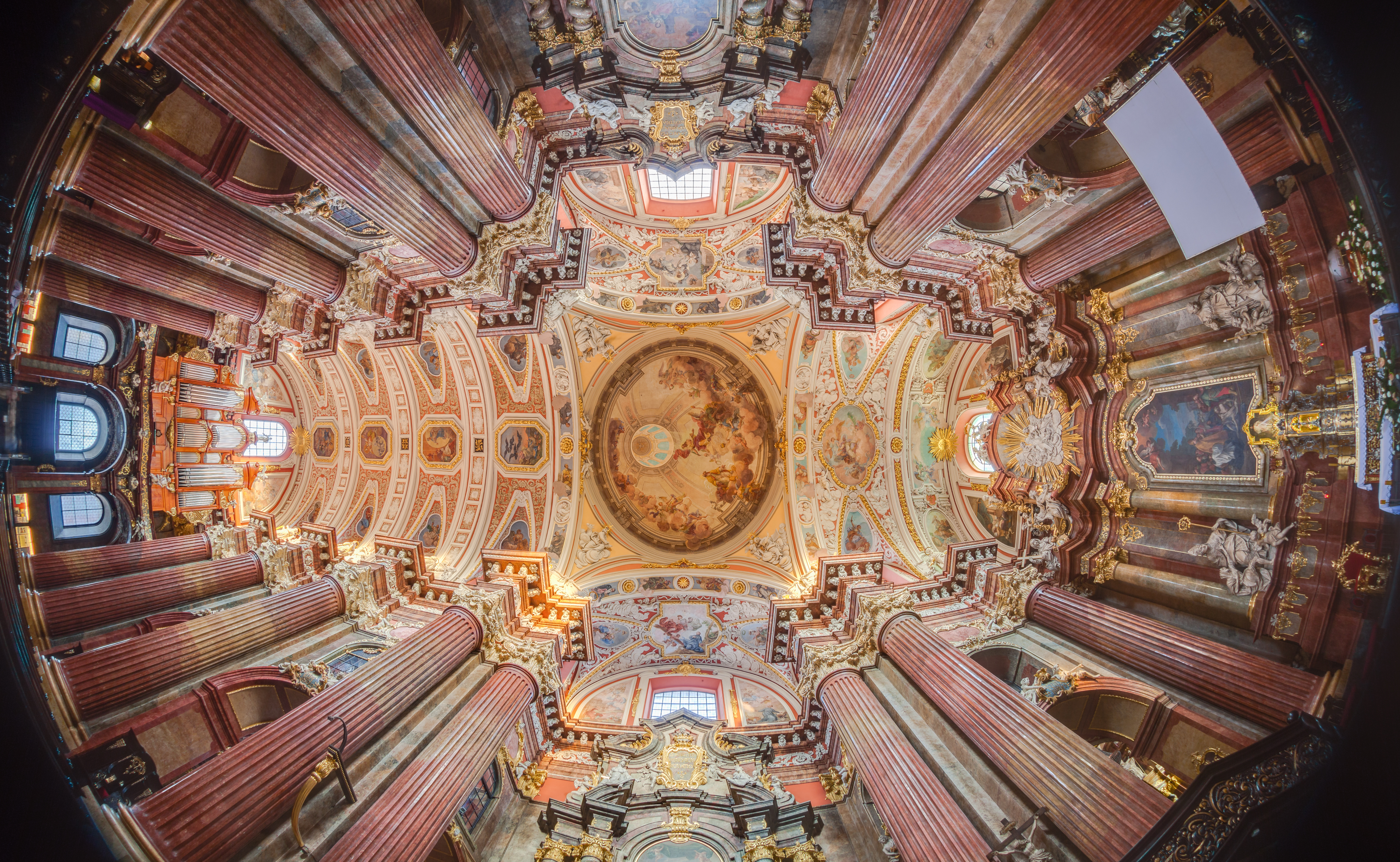 Collegiate church, Poznań, Poland